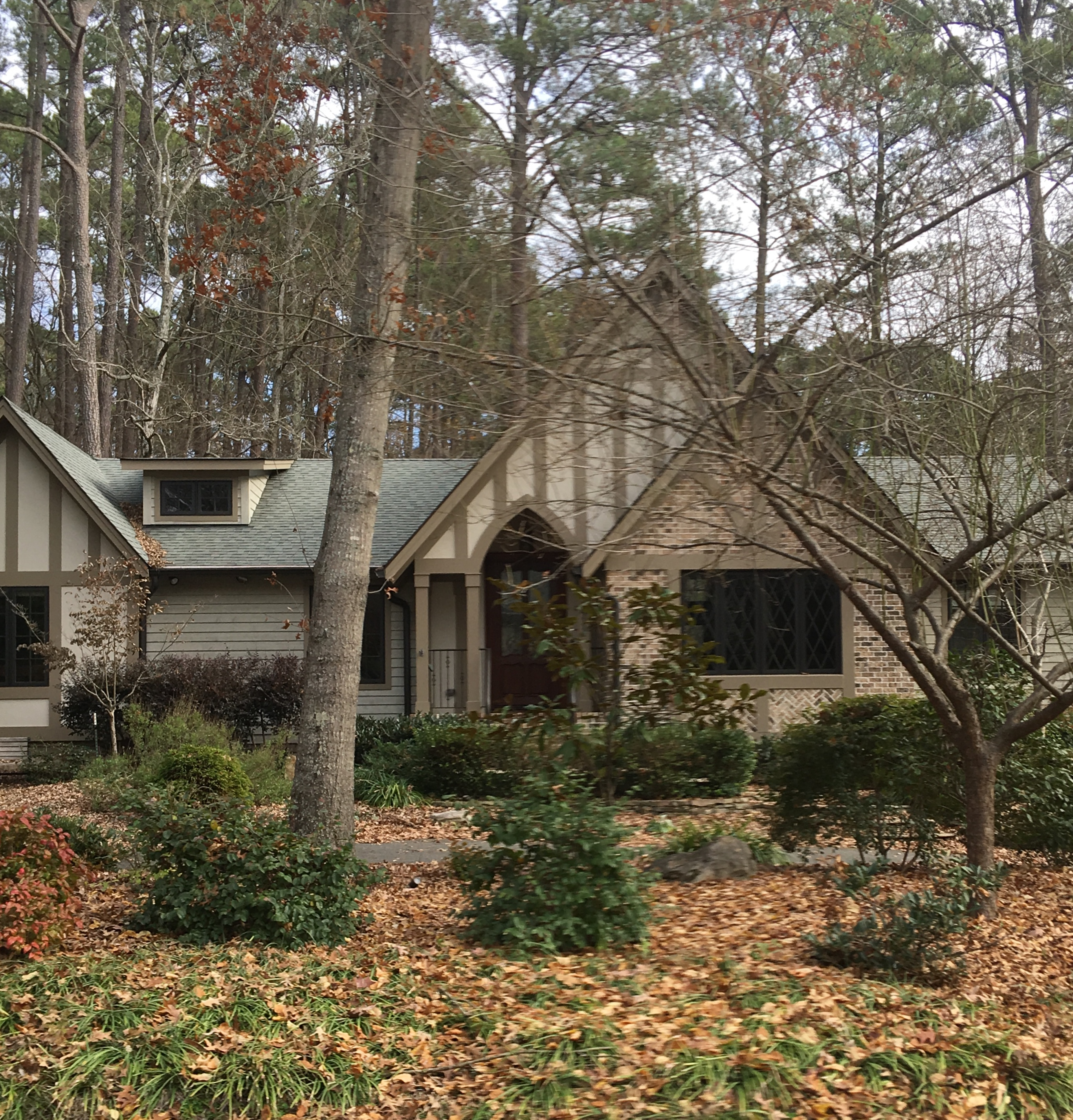 Bill Bishop’s home in Hope Valley Country Club, Durham, North Carolina